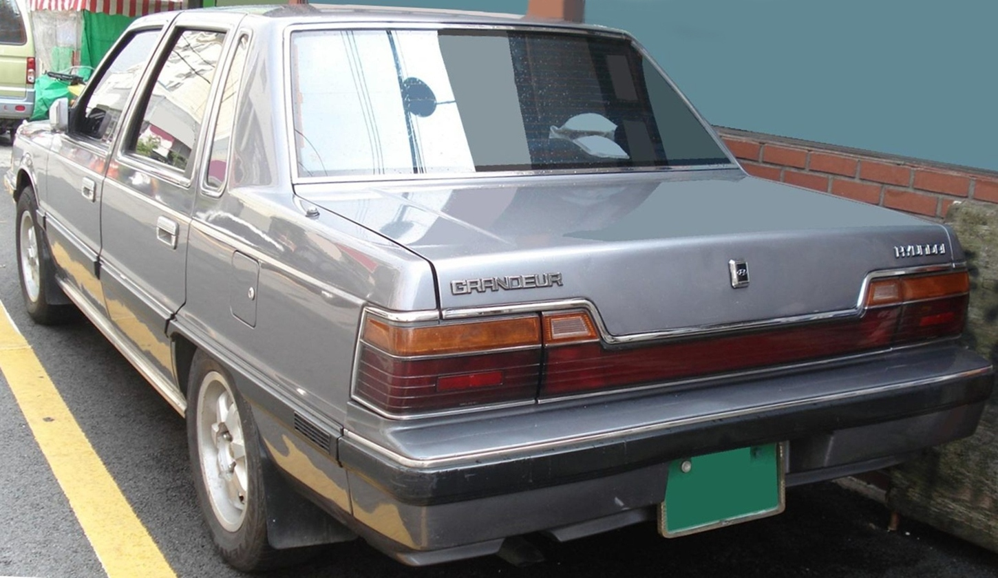 Hyundai Grandeur